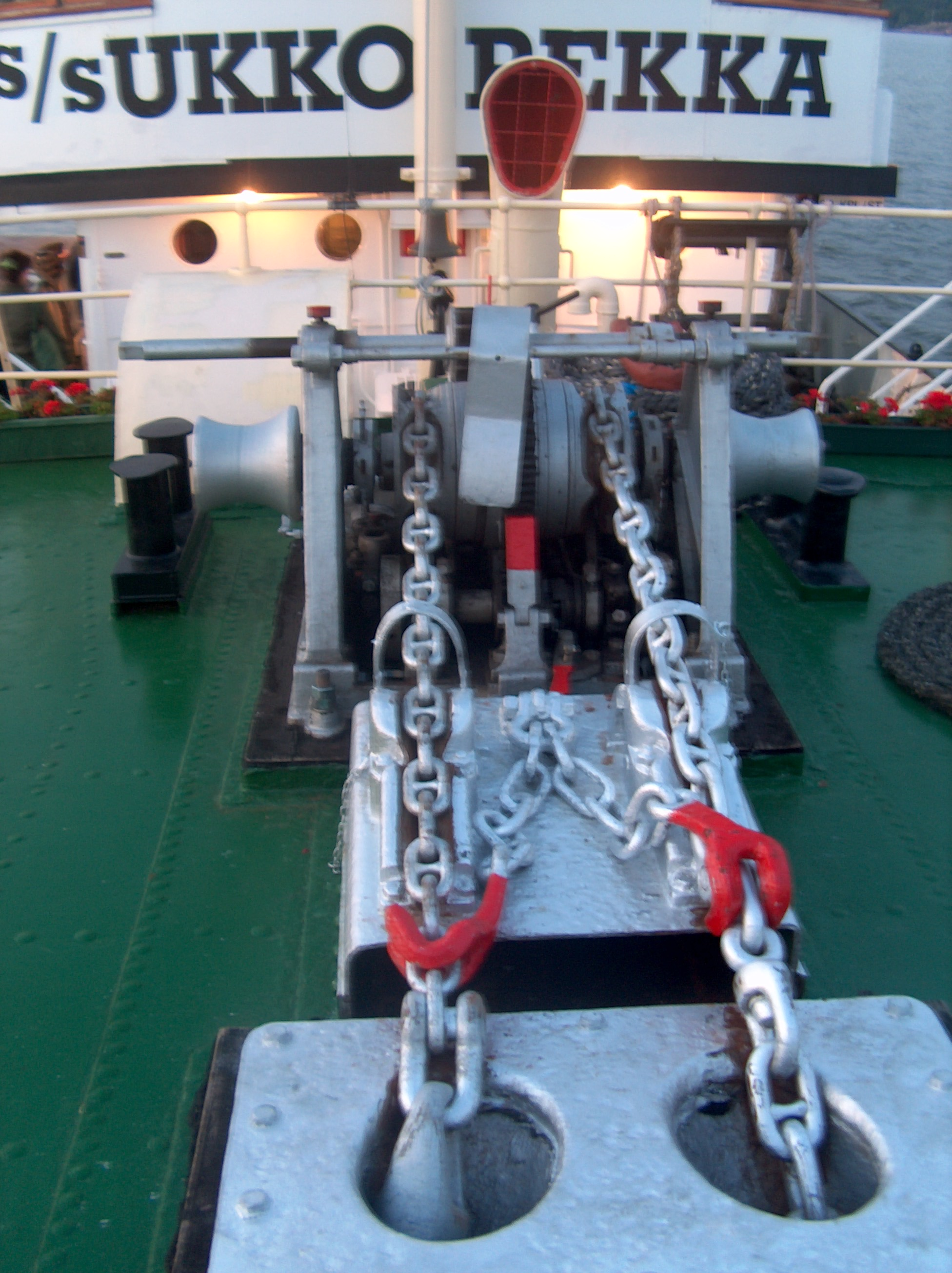 An old anchormachine of the SS Ukkopekka